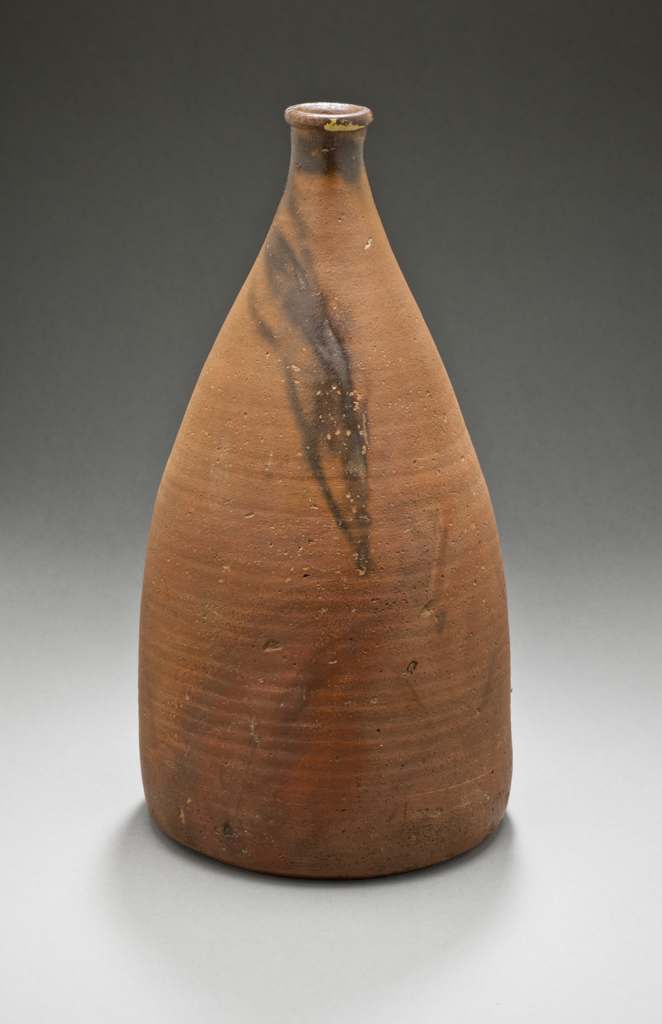 Japan, Edo period, mid-17th century Alternate Title: Tokkuri Furnishings; Accessories Bizen ware; stoneware 11 3/8 x 5 5/8 in. (28.89 x 14.29 cm) Gift of James D. and Veronica H. Roorda (M.2004.299.6) Japanese Art